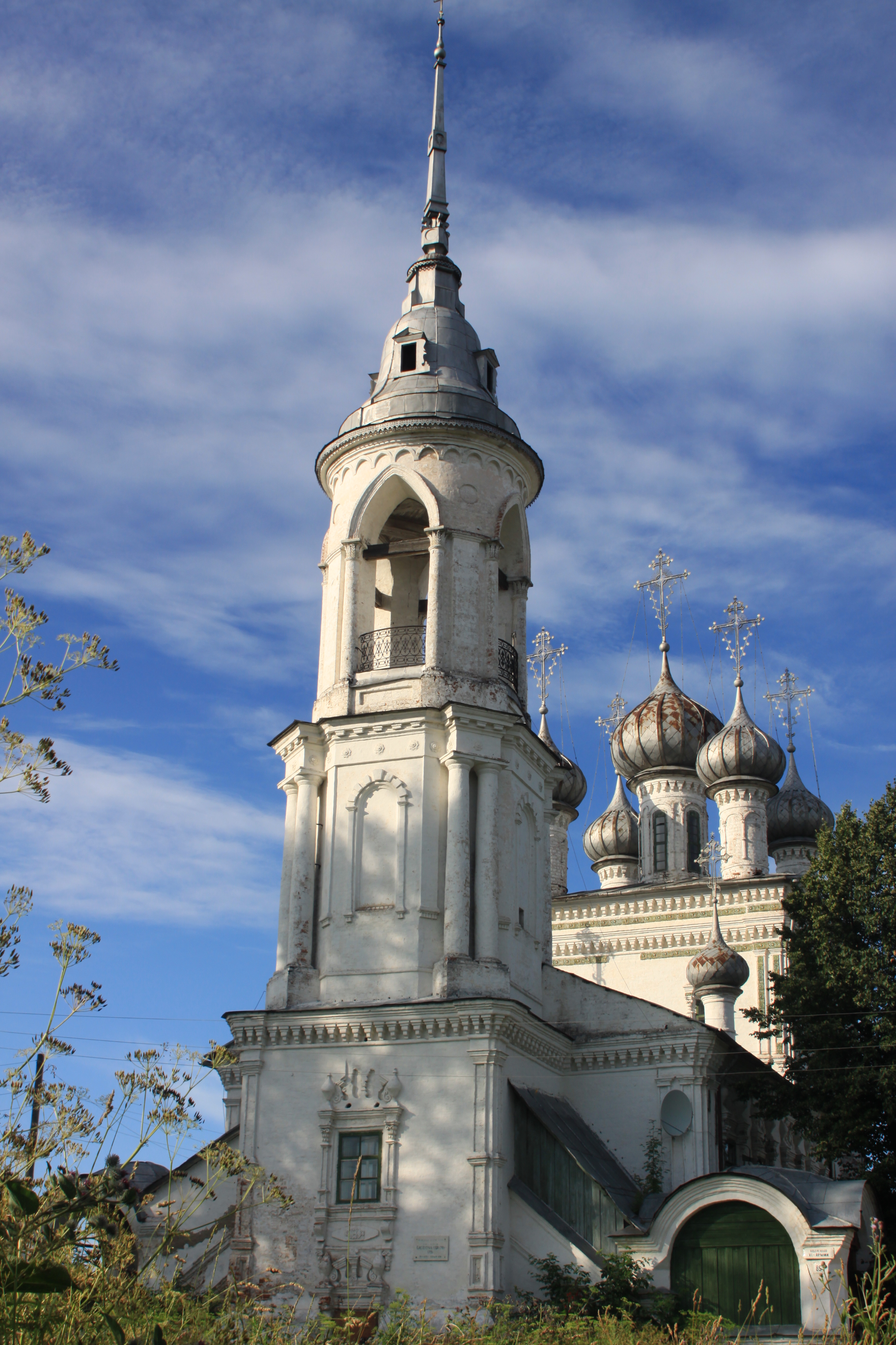 Presentation of Jesus Church in Vologda, west view with the belfry